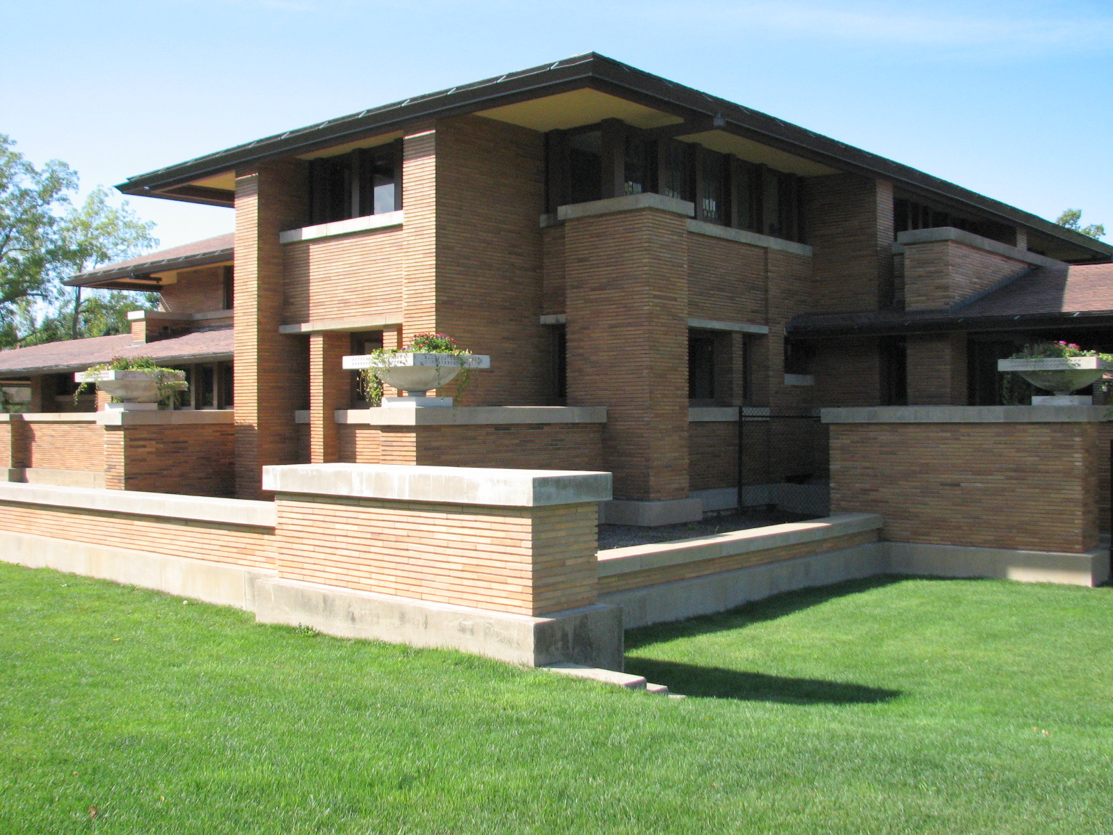 Main house (1904-1905) on the Darwin D. Martin Complex designed by Frank Lloyd Wright in Buffalow, New York.